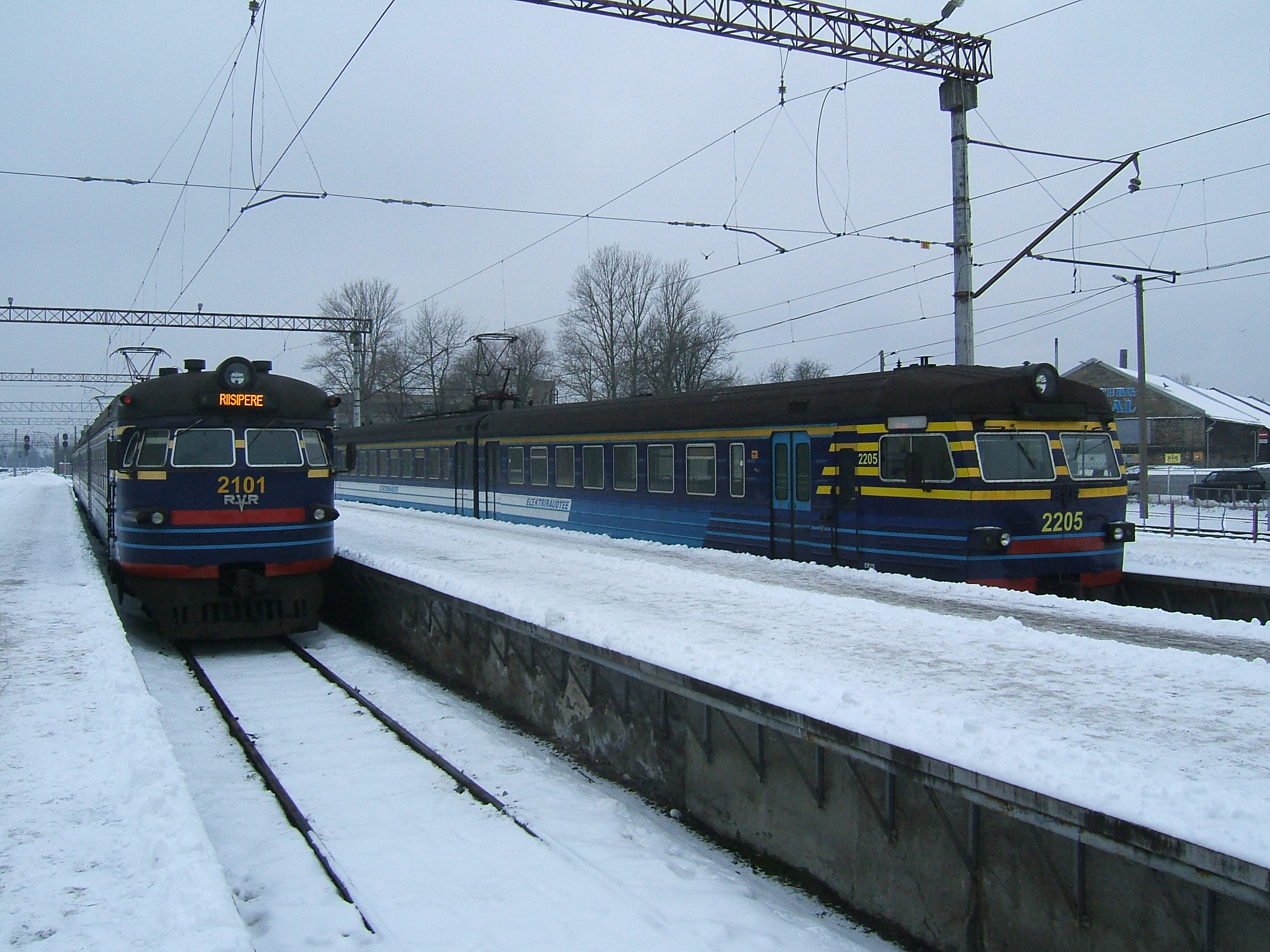 Electric suburban trains